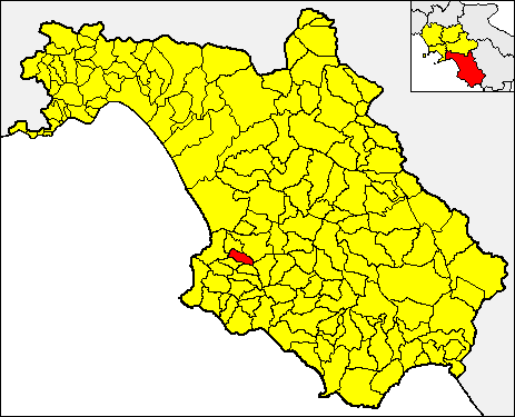 Locator map of the municipality of Prignano Cilento (red) within the Province of Salerno